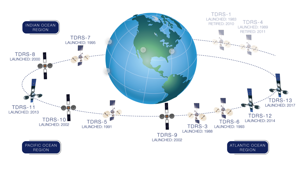 The above image represents what the current Tracking and Data Relay Satellite (TDRS) configuration is as March 2019 with 10 in-orbit TDRS in space (four first generation, three second generation and three third generation satellites). After 20+ years of service, two of the first generation TDRS are retired (TDRS-1 and TDRS-4) and super-synced into an orbit about 300 miles higher than geosynchronous (GEO) where the operational fleet sits.